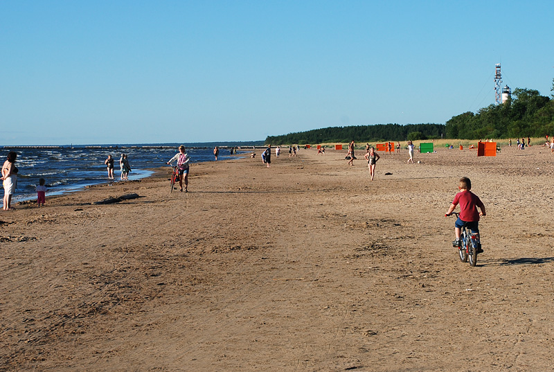 Estonia, Narva-Jõesuu